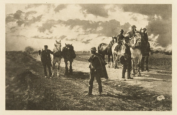 Camera Work: Berkshire Teams and Teamsters